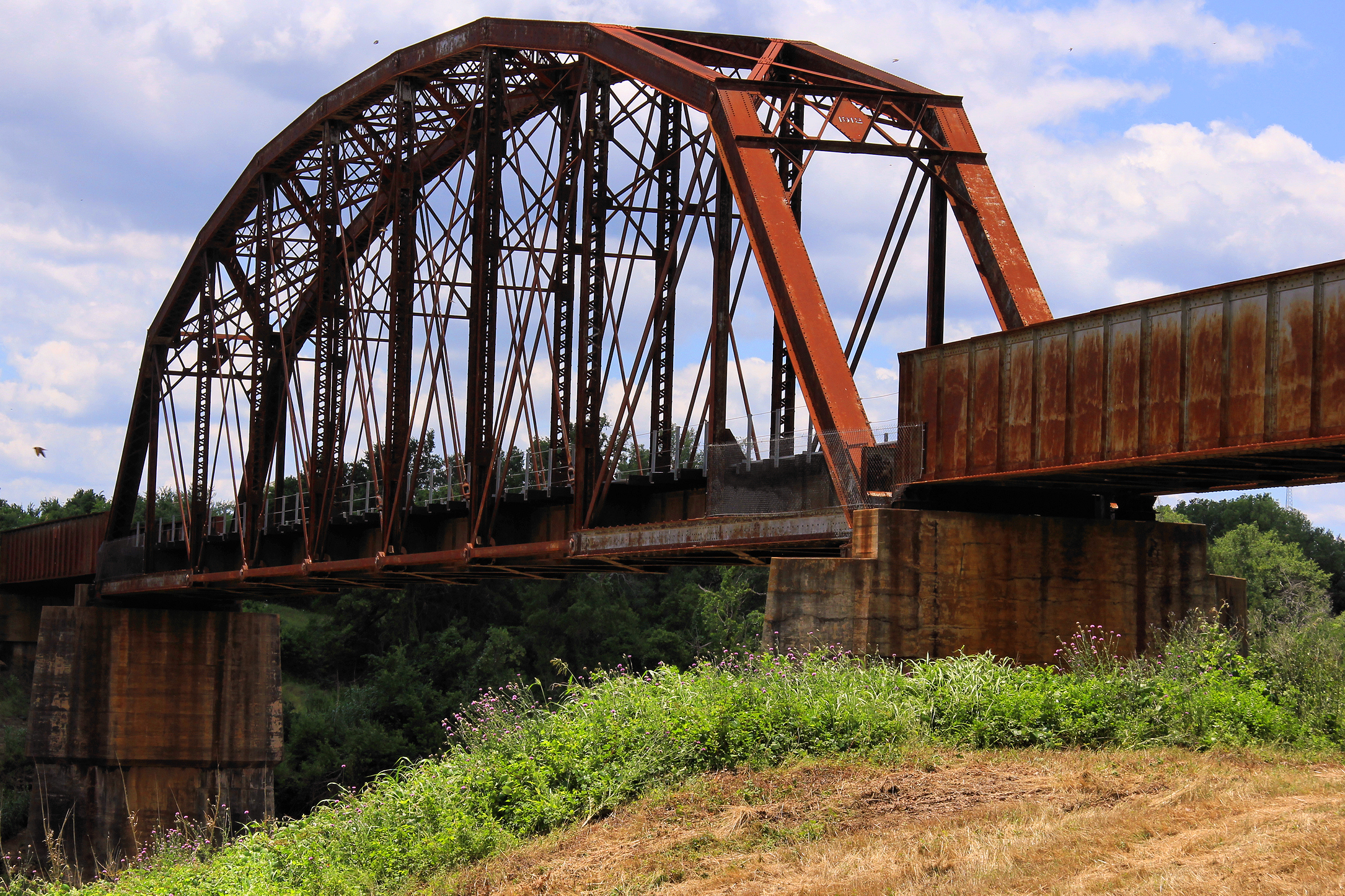 Railway Bridge over the Brazos River at the Brazos-Burleson County line, Texas, United States.